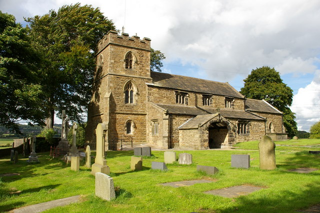 St James' parish church, Altham, Lancashire, seen from the southwest